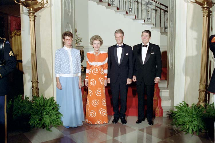 President Reagan and Nancy Reagan with Prime Minister of Sweden Ingvar Carlsson and Ingrid Carlsson in Cross Hall before a state dinner. 9/9/87.